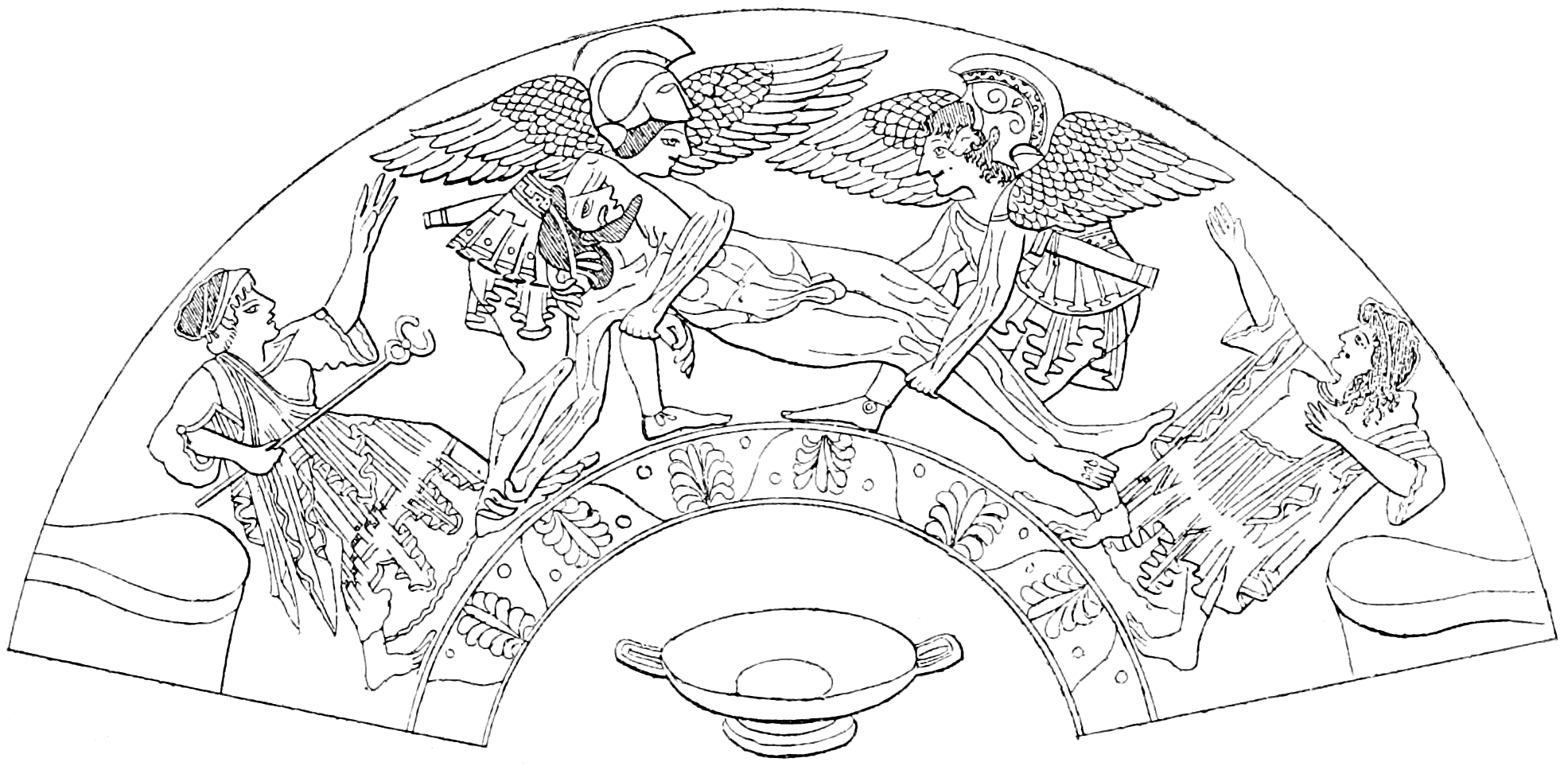 Recovery of the corpse of Memnon, red-figure kylix (drinking cup)